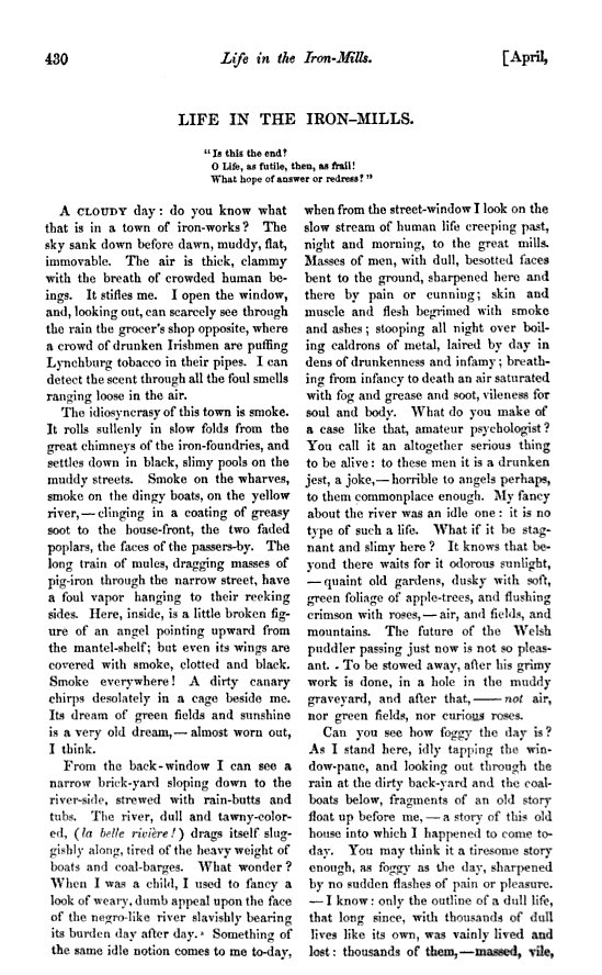 First page of the novella "Life in the Iron-Mills" by American author Rebecca Harding Davis, as first published in The Atlantic Monthly for April 1861 (pp. 430-451).